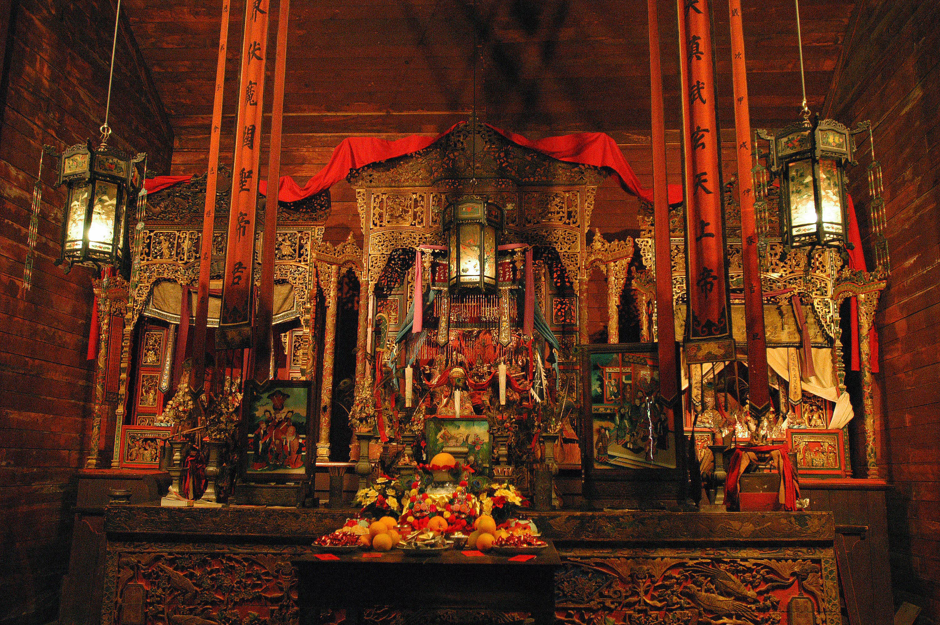 Weaverville Joss House, California, USA; much of the temple interior is preserved the way it originally looked